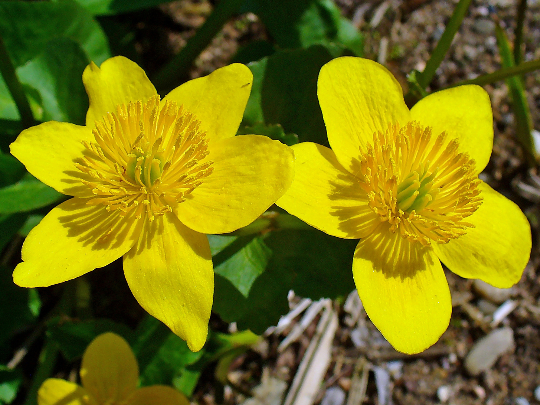 Caltha palustris, Ranunculaceae, Kingcup, Marsh Marigold, flowers; Karlsruhe, Germany. The fresh aerial parts of the plant are used in homeopathy as remedy: Caltha palustris (Calth.)